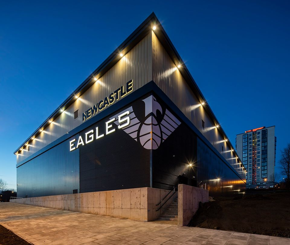 Exterior of the Eagles Community Arena